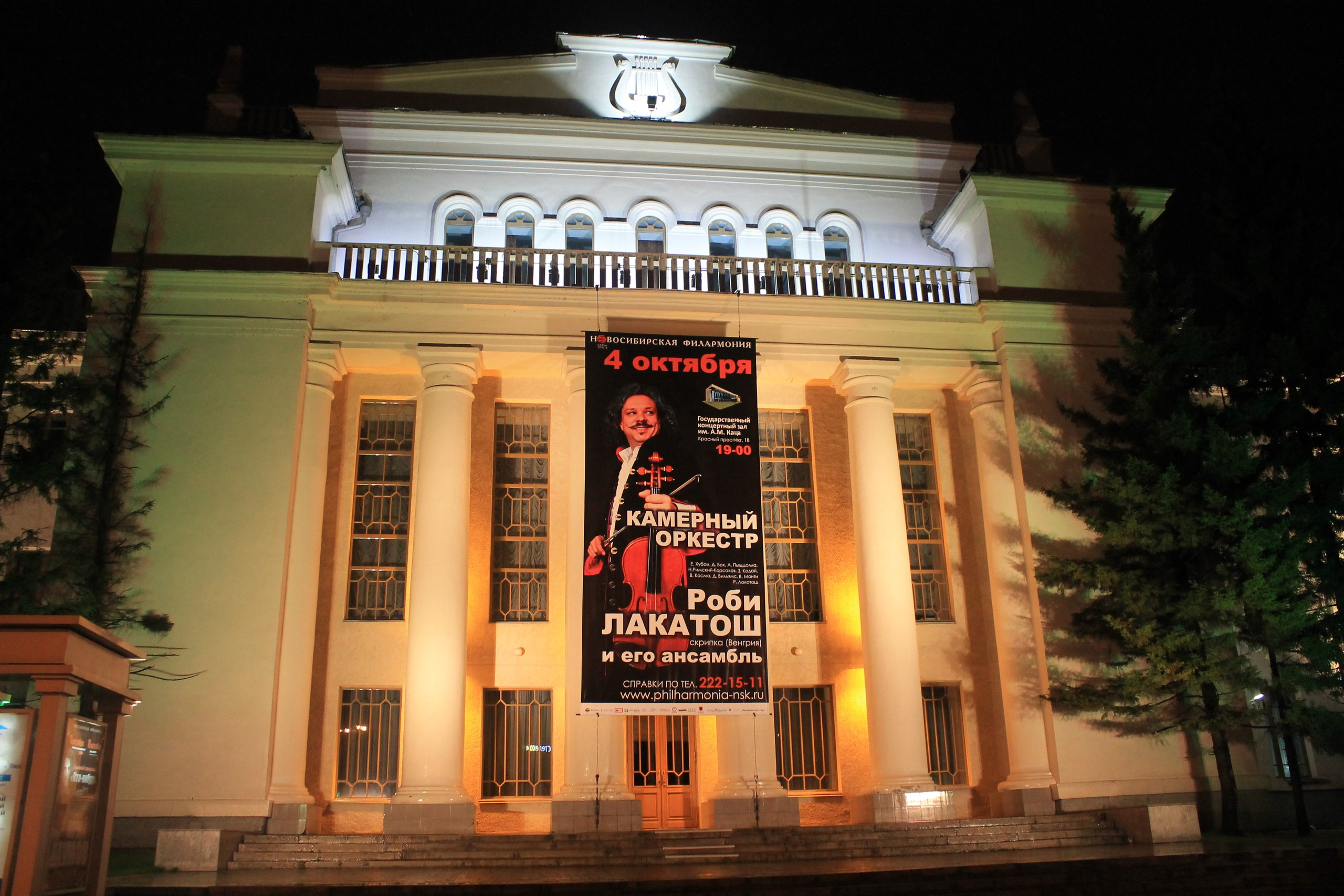 Lenin House in Novosibirsk, Russia. The building is located in Krasny Avenue, 32. It was built in 1924—1926 by architects I. A. Burlakov, I. I. Zagrivko and M. S. Kuptsov. In 1944 the building was rebuilt by architect V. M. Teitel. Now here is a Novosibirsk State Philharmonic.